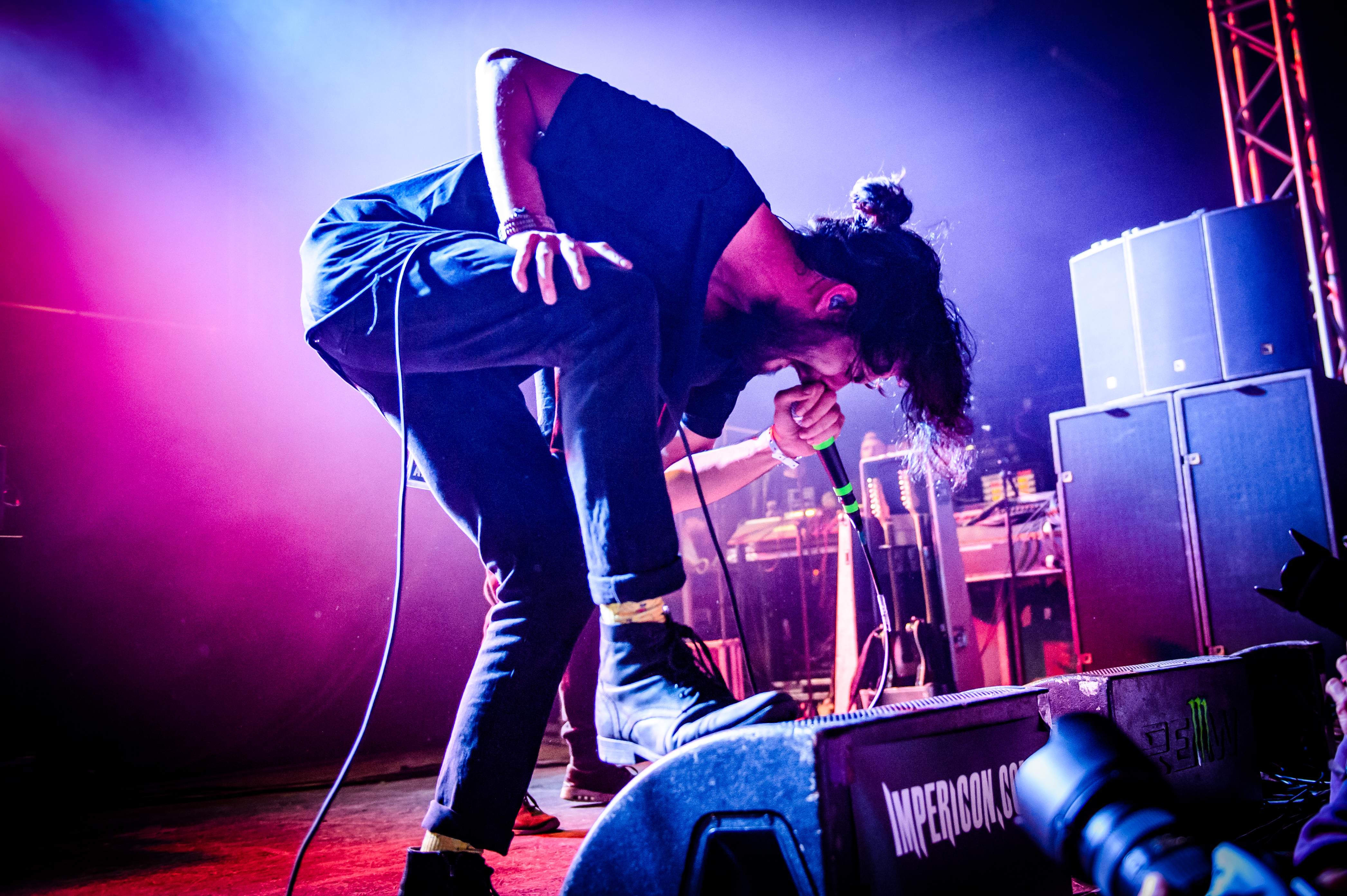 Northlane; Impericon Festival 2016 - Oberhausen